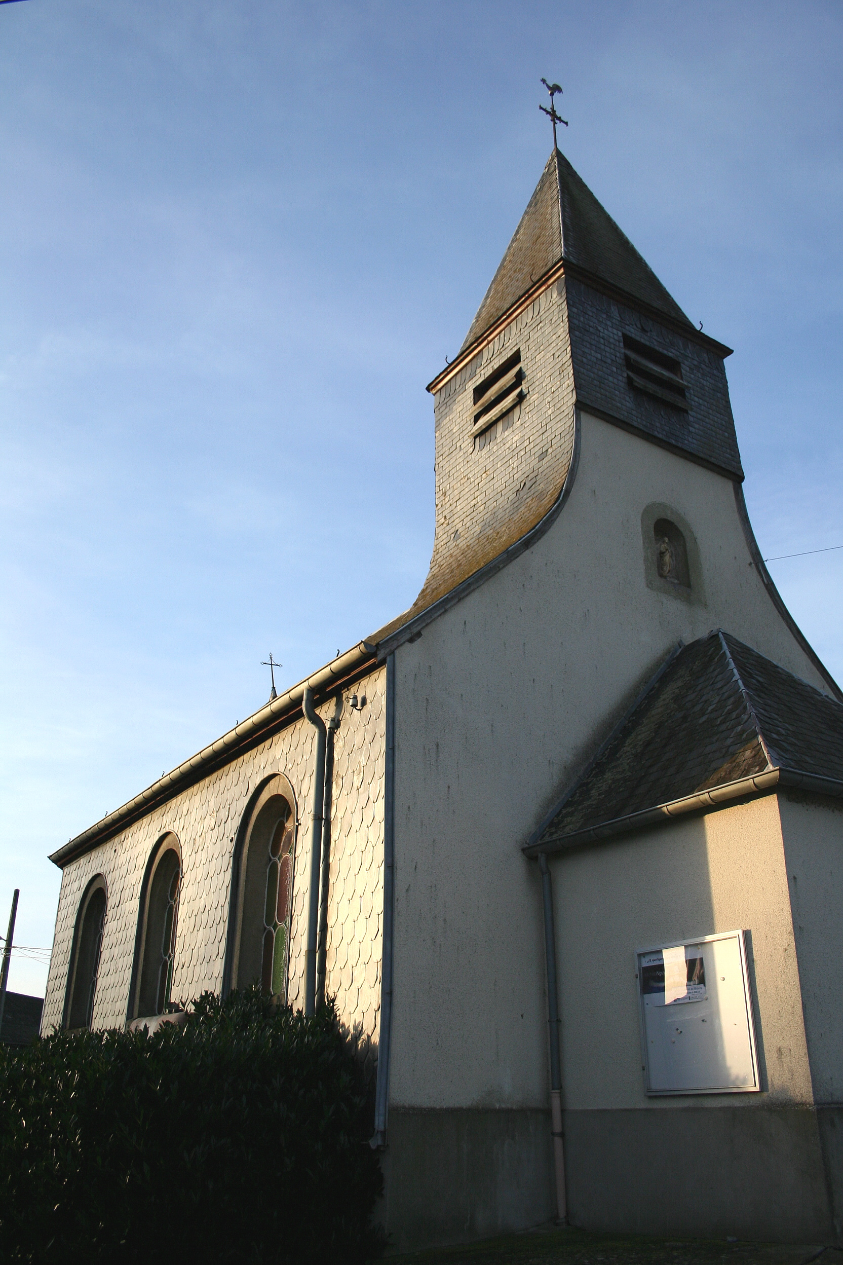 Monceau-en-Ardenne (Belgium), the St. Donat chapel.